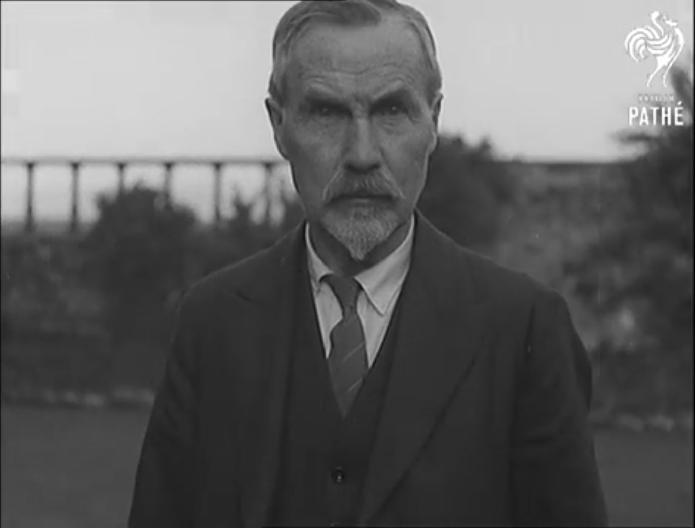 Sceenshot of video footage of Domhnaill Ua Buachalia, orginally shot circa 1932.